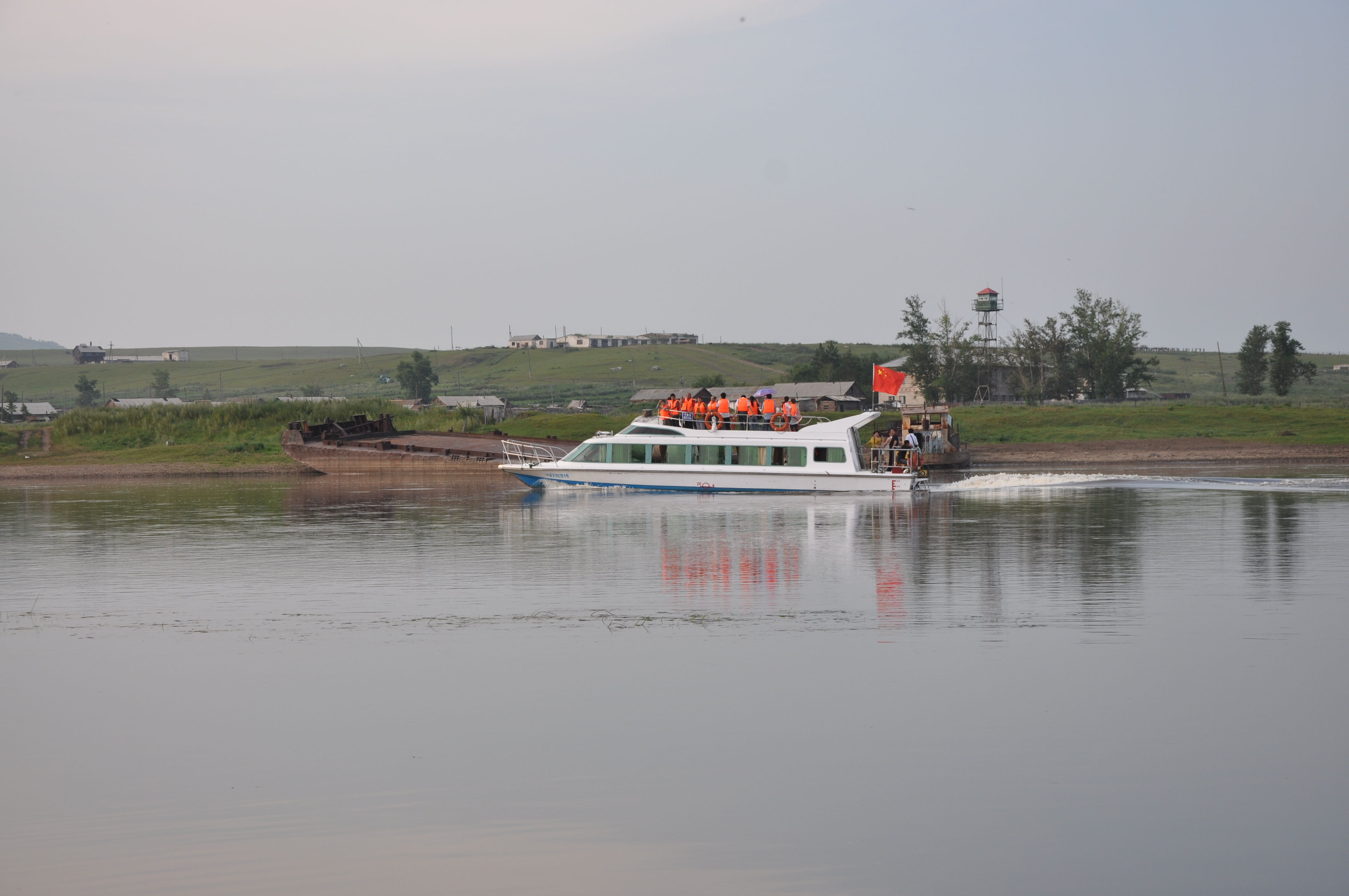 Argun River near Shiwei, Inner Mongolia